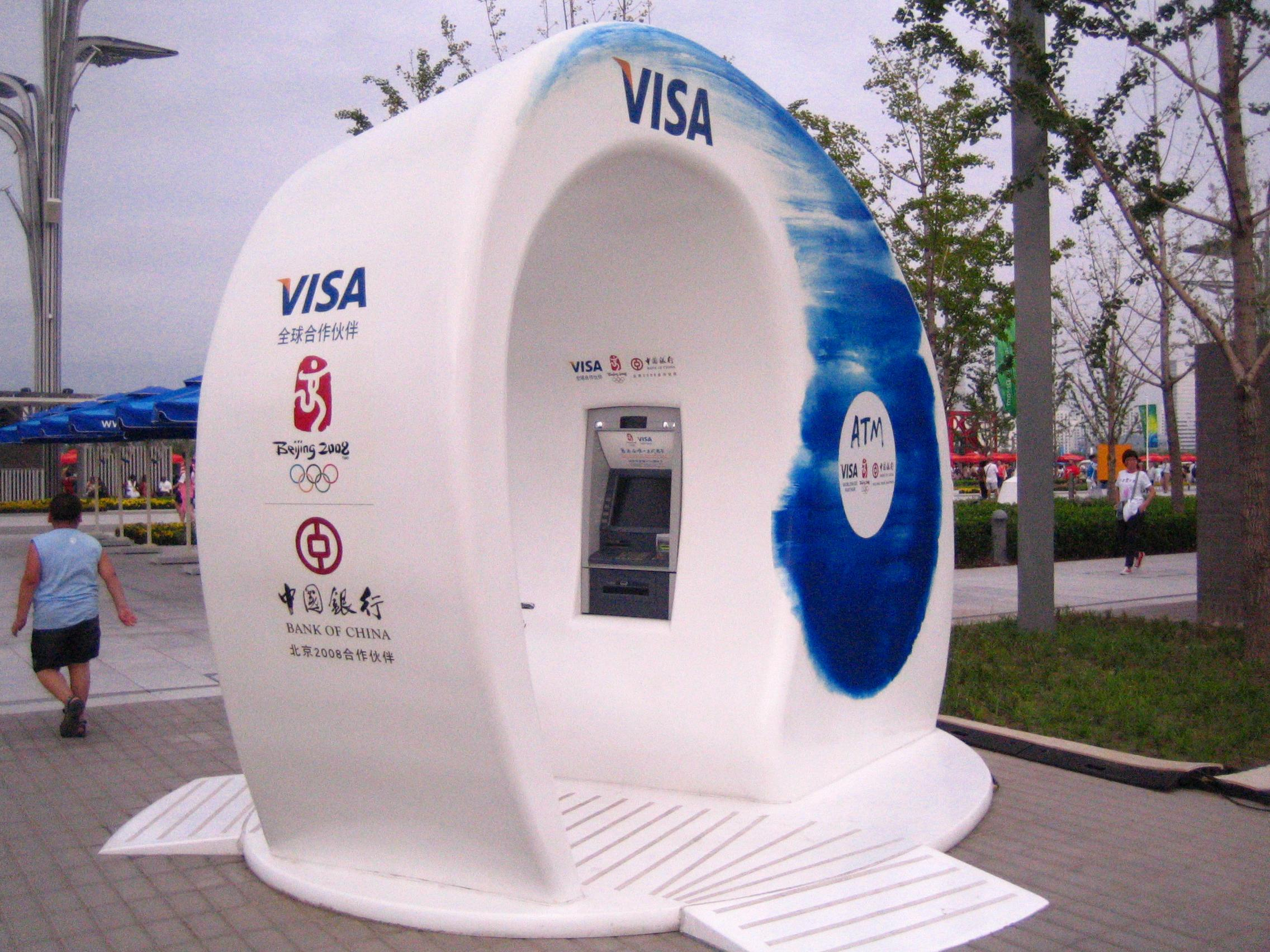 ATM outside the Beijing National Stadium; 2008 Beijing Olympics; Beijing, P.R.China.